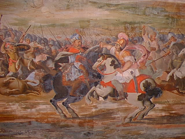 Crop of a fresco showing a mythical Olomouc victory of Jaroslav of Sternberk over Tatars in 1241, Zelena Hora Castle, Nepomuk, Czech Republic